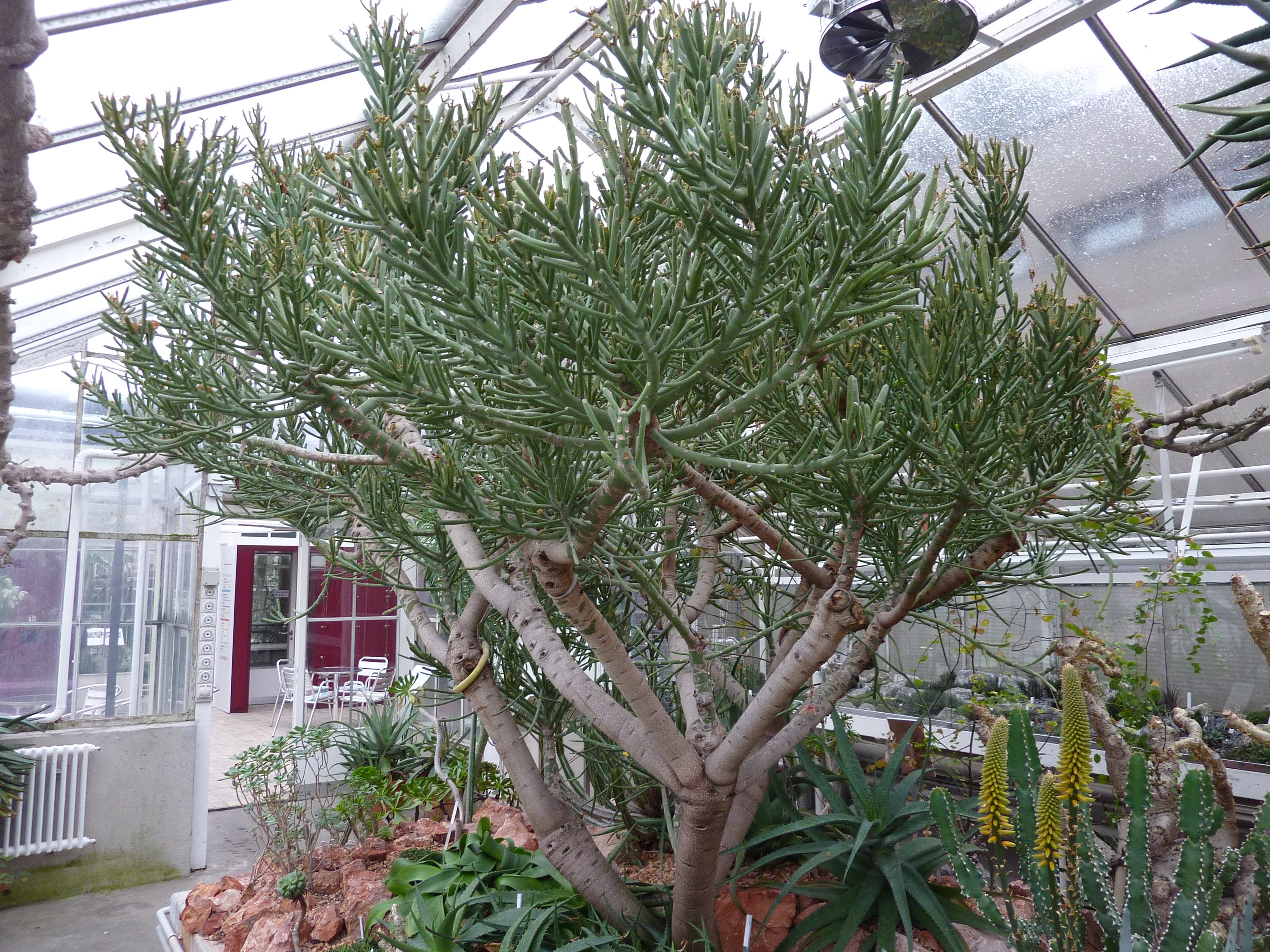 Euphorbia arbuscula in the Sukkulentensammlung Zürich